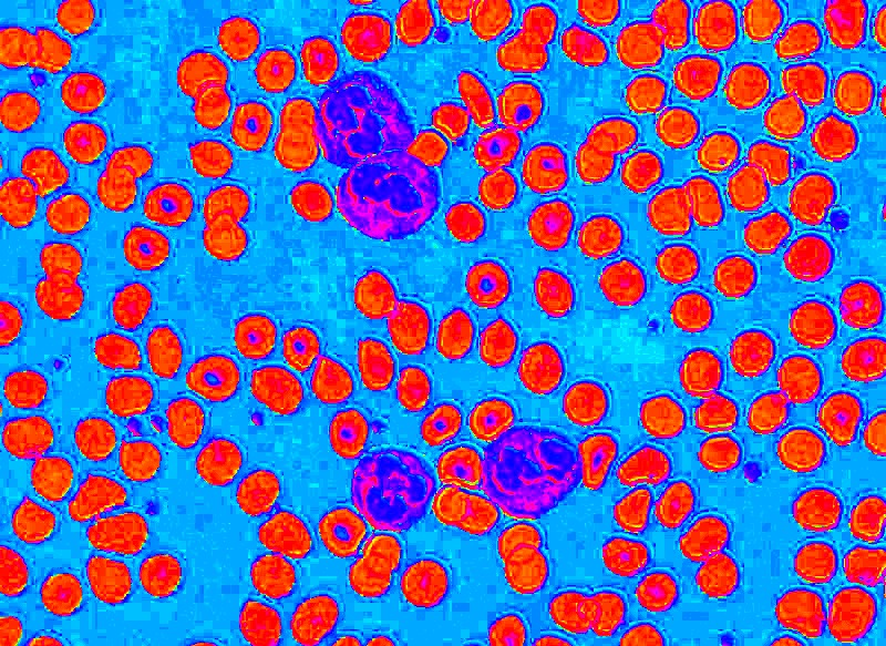 Hue component of Neutrophils.jpg